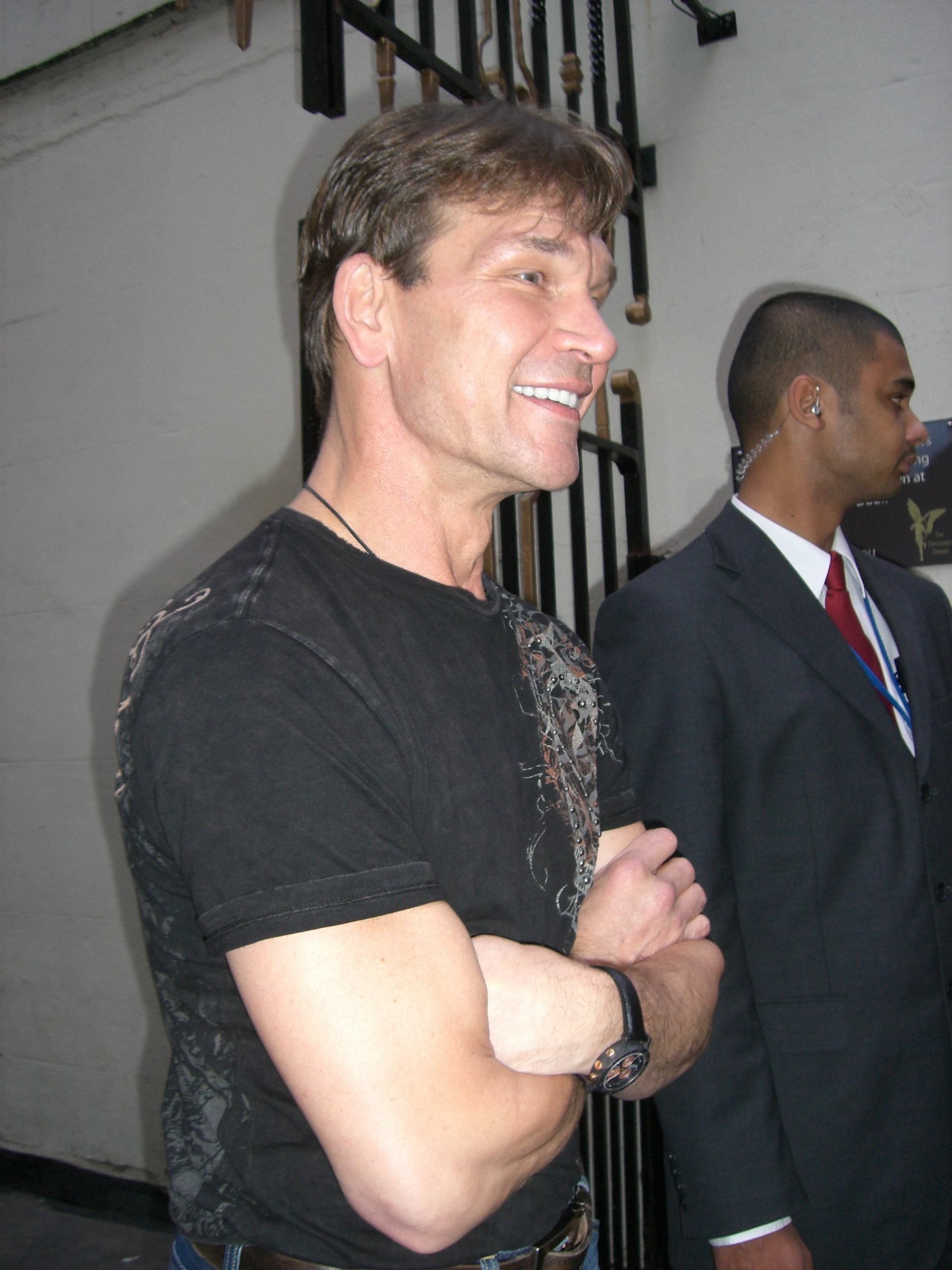 Talking to his fans after "Guys and Dolls".